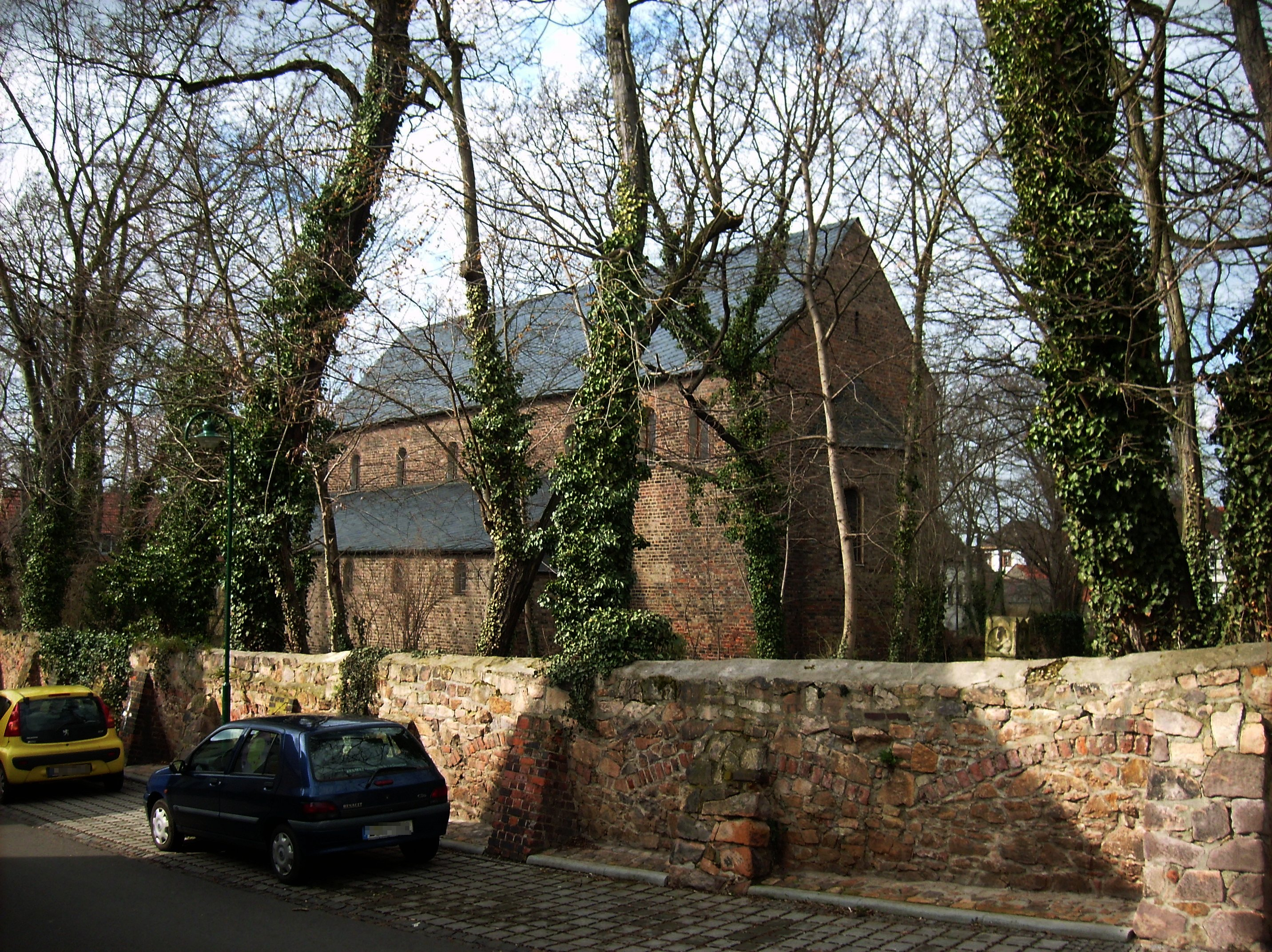 Saint Cunigunde Church in Borna (Leipzig district, Saxony) from the south-east